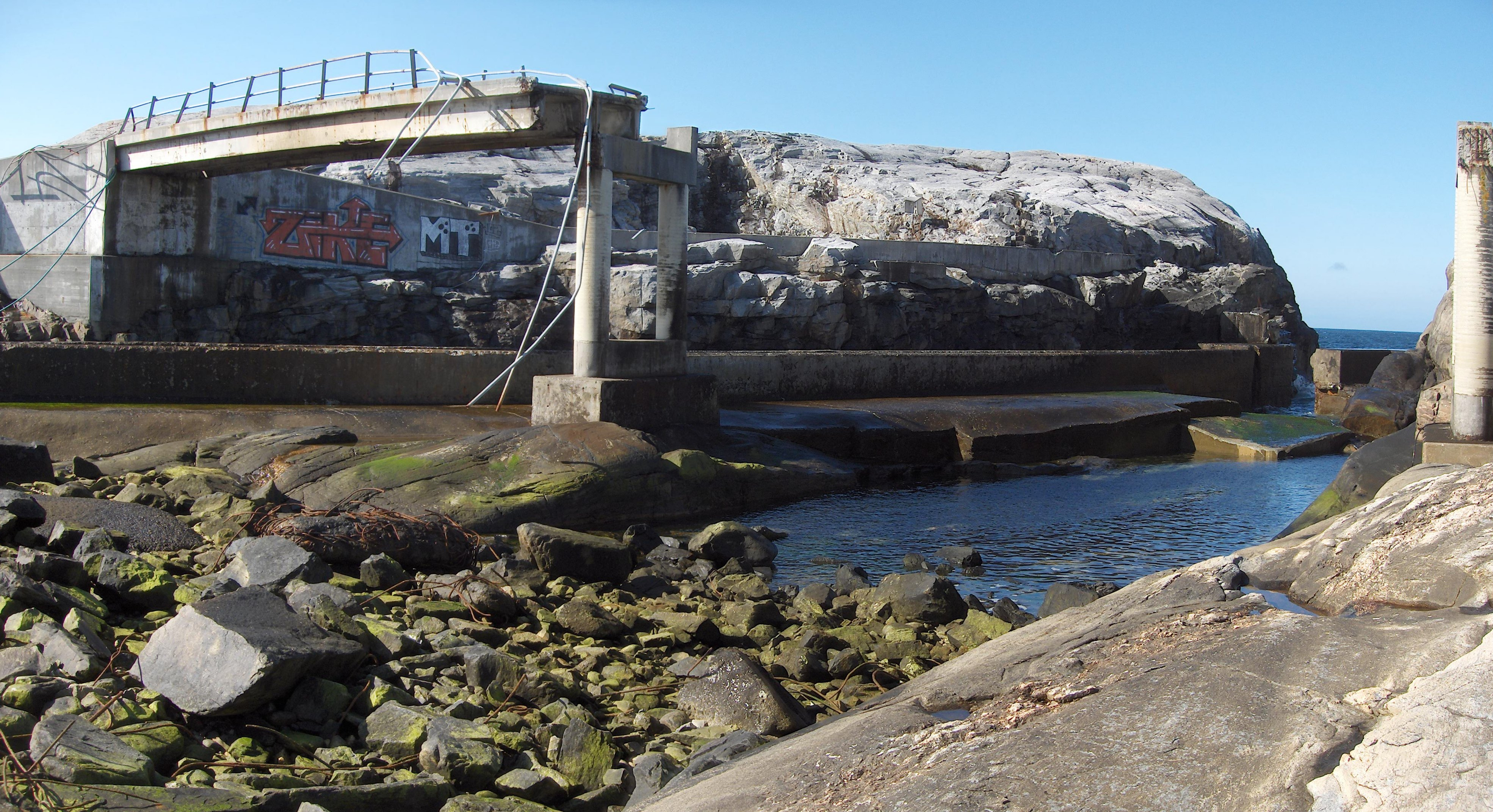 The ruins of Norwave's tapered channel wave power station at Toftestallen, Øygarden, near Bergen, Norway